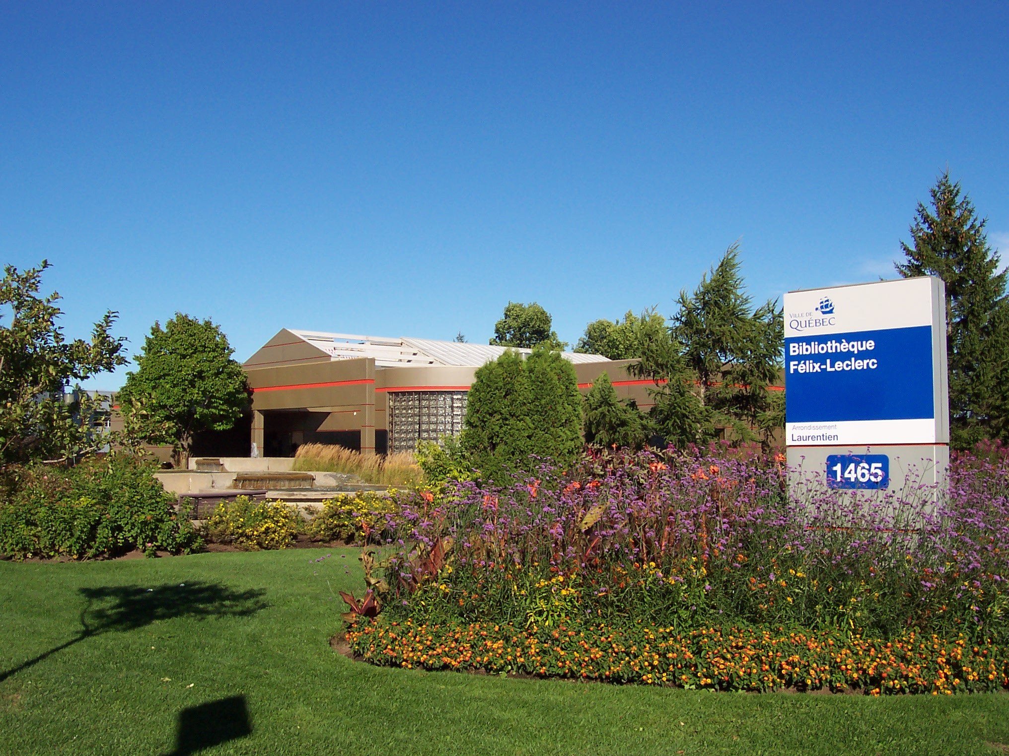 Félix-Leclerc Library, Val-Bélair, Laurentien Borough, Quebec City, Quebec, Canada, september 8th, 2007.